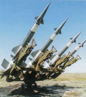 A U.S. military photo Ð¡Ð»Ð¸ÐºÐ°:Sa3a.jpg